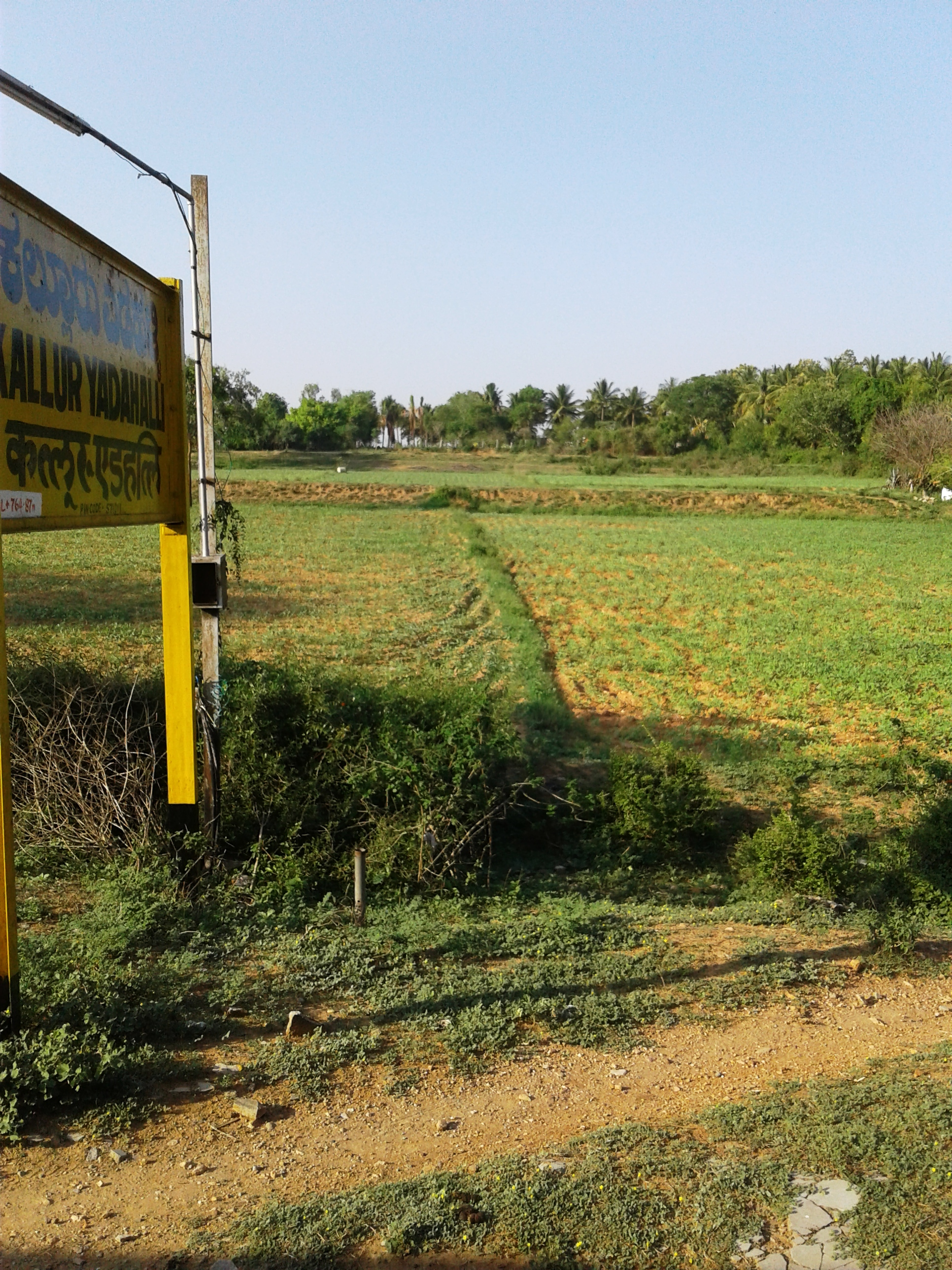 Mandya district, Karnataka State, India